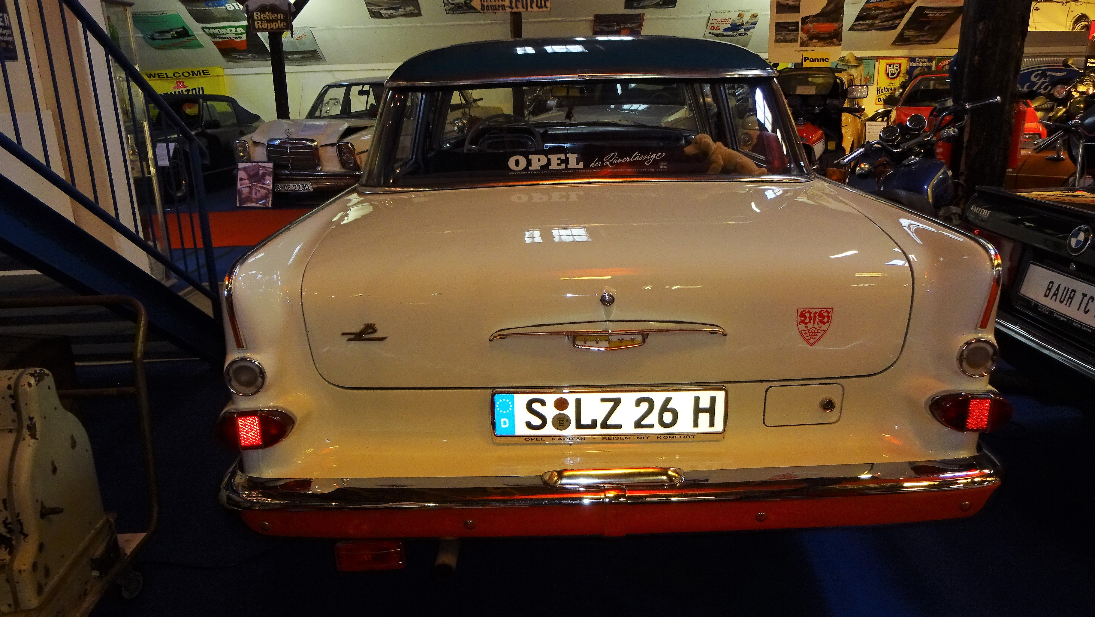 Opel Kapitan Car